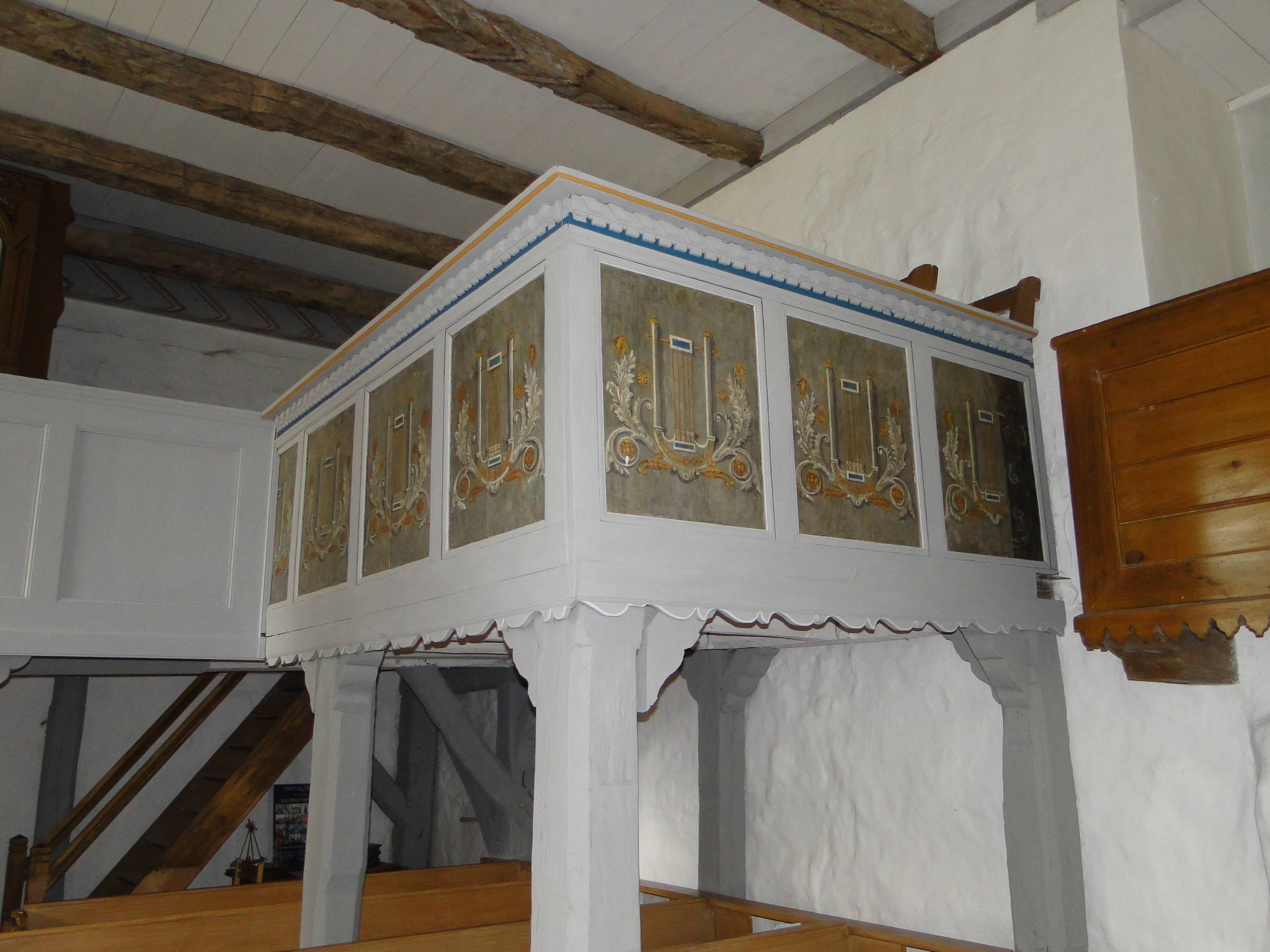 Church in Techentin, district Ludwigslust-Parchim, Mecklenburg-Vorpommern, Germany